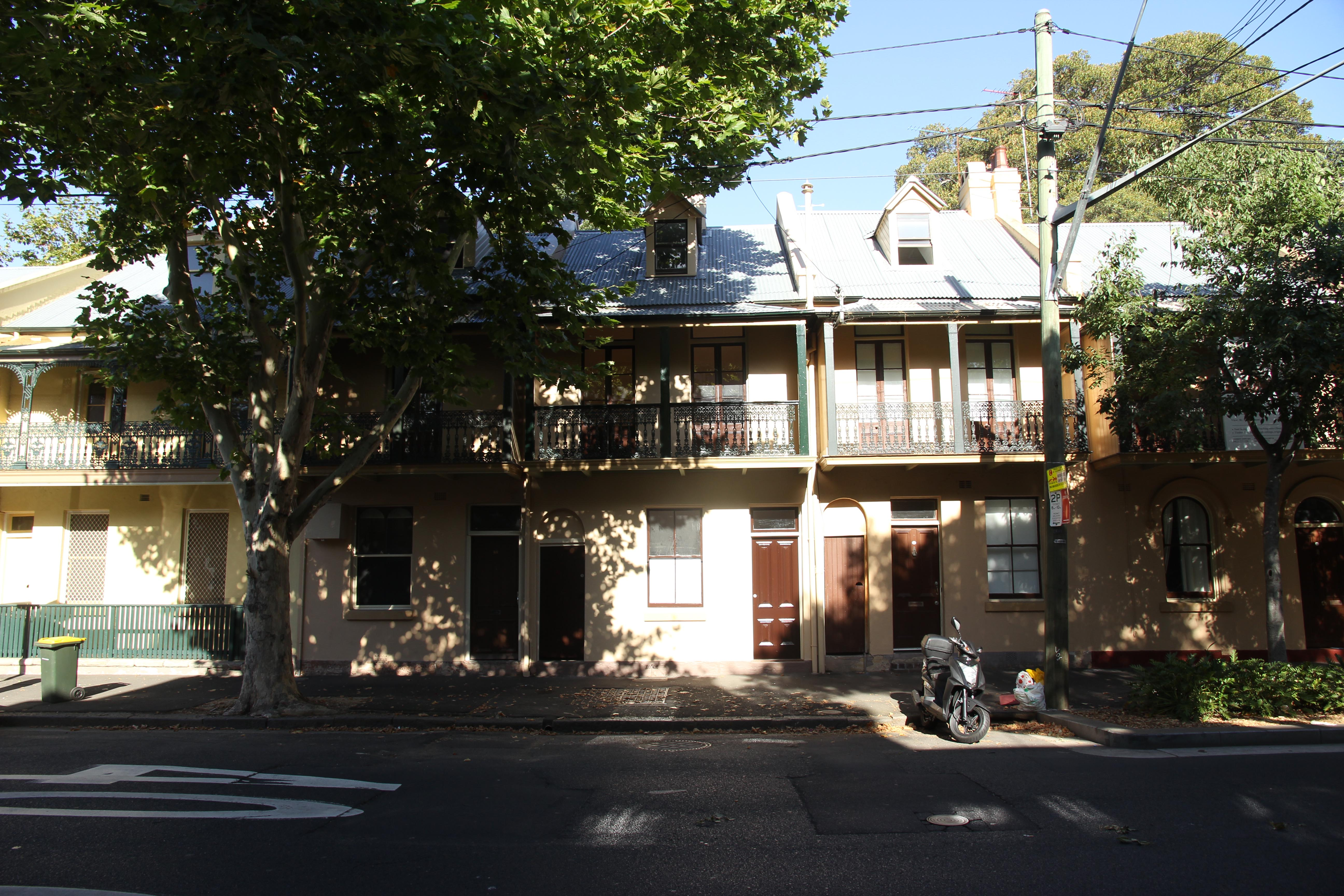 Part of Blyth Terrace (at left) and 90-92 Kent Street (at right), Millers Point, City of Sydney, New South Wales, Australia